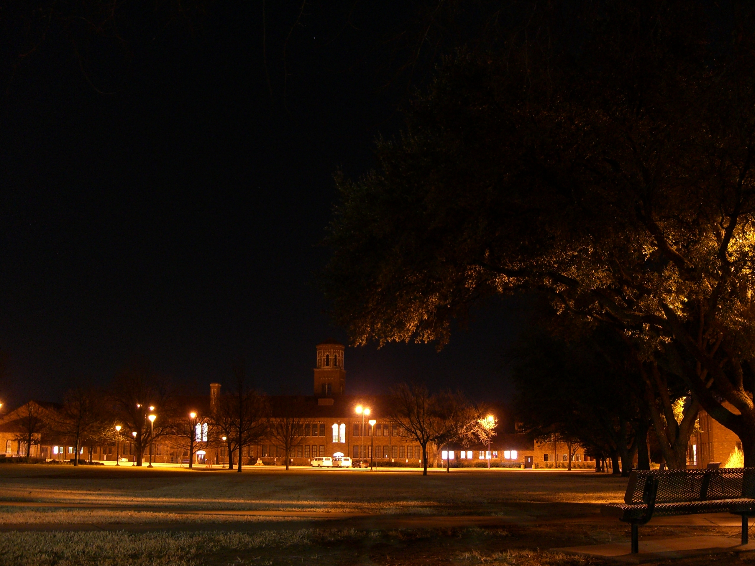 Main building of the Midwestern State University, Hardin Hall, at night.